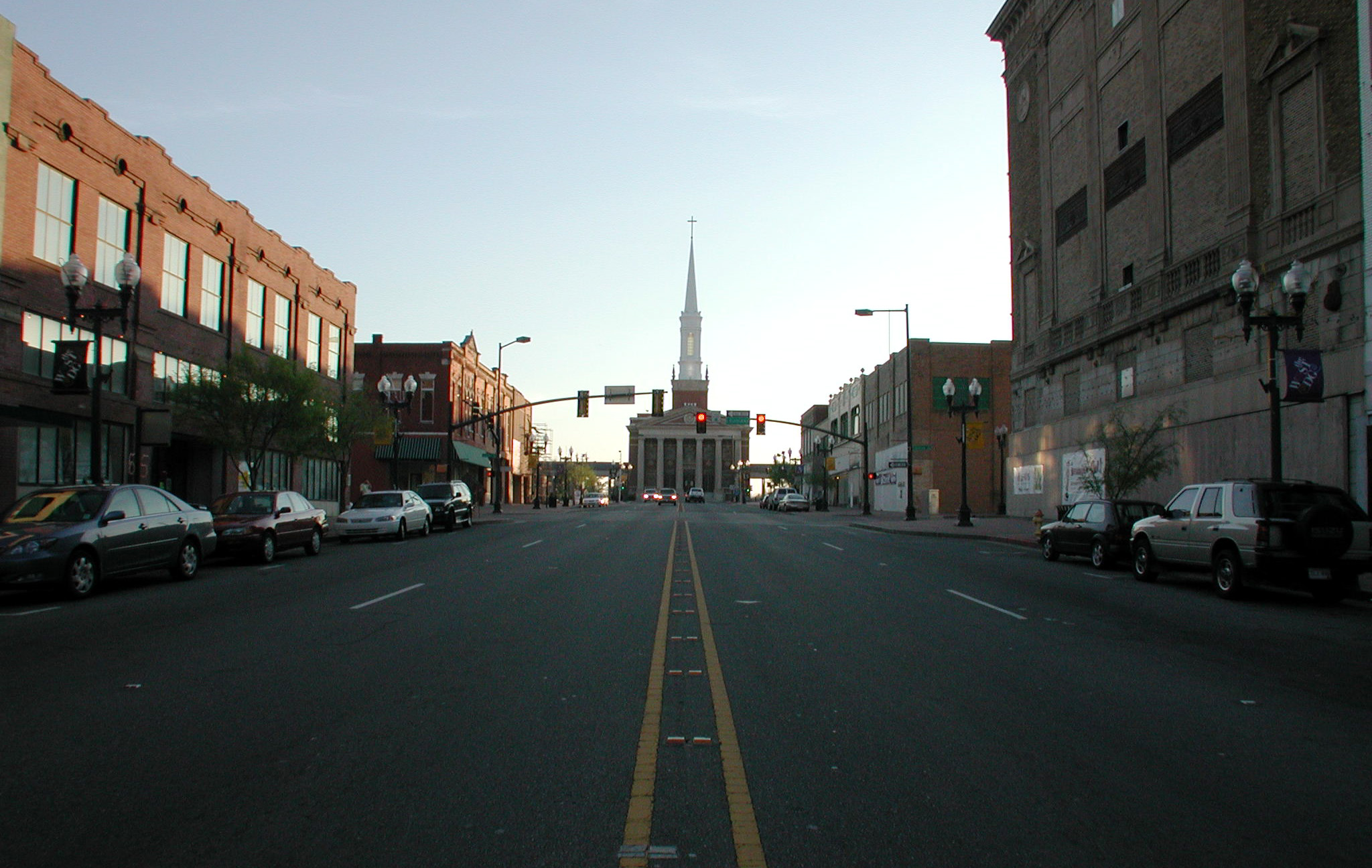 Texas Street, Shreveport, 2002